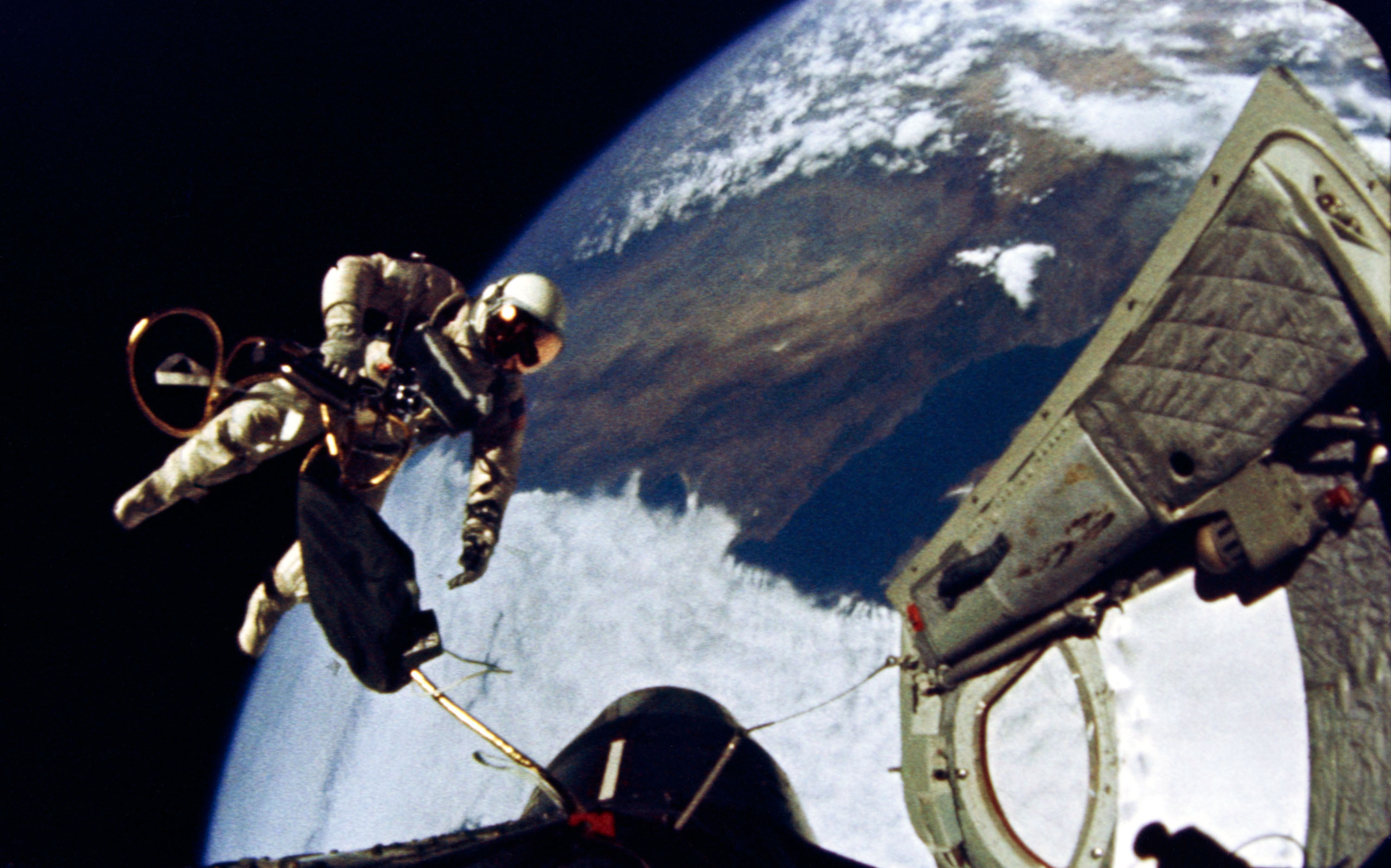 Astronaut Edward H. White II, pilot for the Gemini-Titan 4 space flight, floats in zero gravity of space. The extravehicular activity was performed during the third revolution of the Gemini 4 spacecraft. White is attached to the spacecraft by a 25-ft. umbilical line and a 23-ft. tether line, both wrapped in gold tape to form one cord. In his right hand White carries a Hand-Held Self-Maneuvering Unit (HHSMU). The visor of his helmet is gold plated to protect him from the unfiltered rays of the sun.